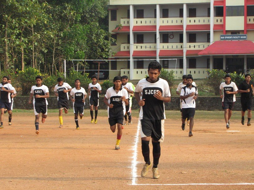 Students en caged in football tournament